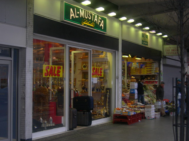 Al-Mustafa, Edgware Road. This is one of the many shops on the Edgware Road that cater for the local Arab community.